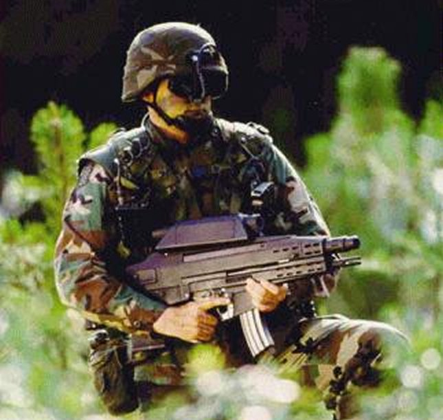 Land Warrior with OICW